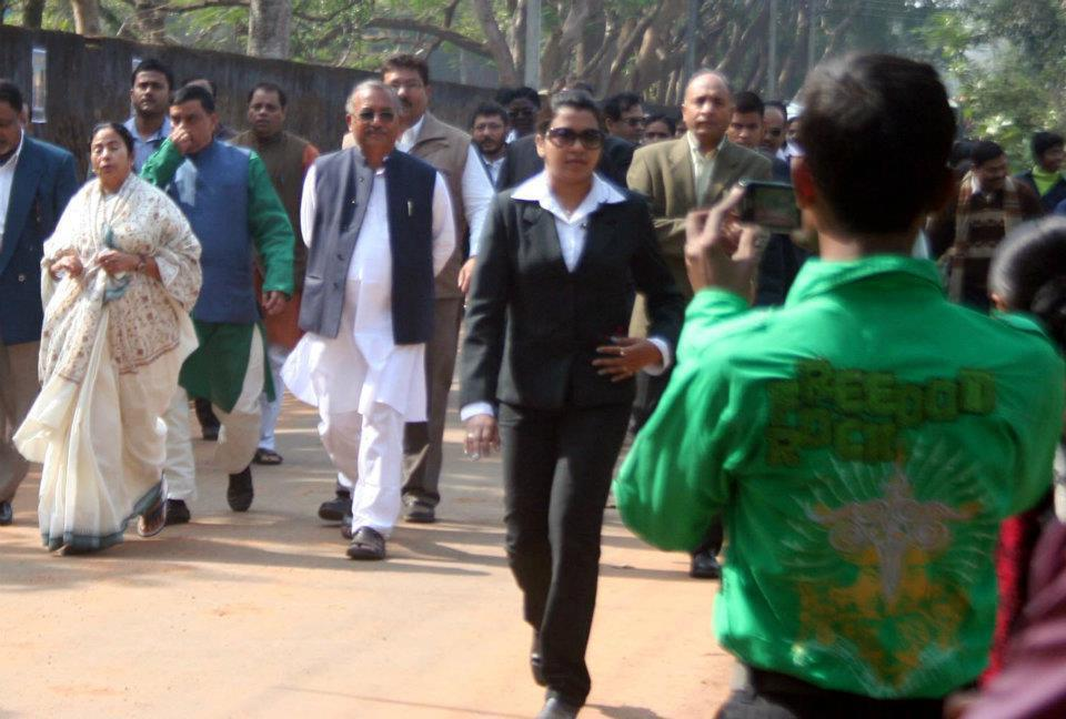 Mamata Banerjee's Pad Yatra in Jhargram